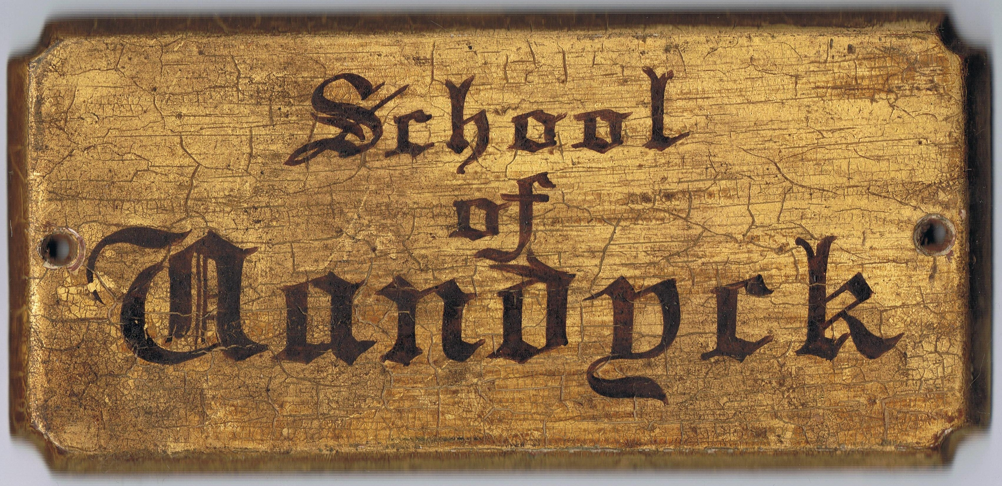 School of Van Dyck label, C19th. Scan of original (R. de Salis, October 2007). Rodolph 17:14, 19 October 2007 (UTC)